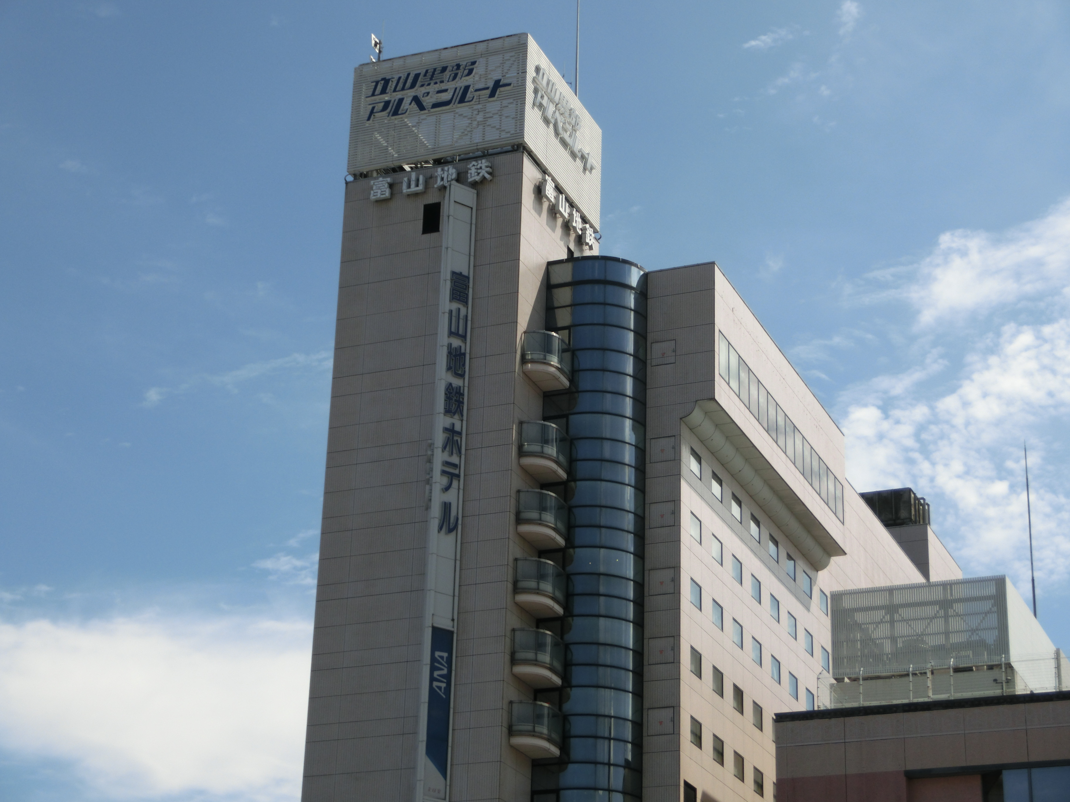 Toyama Chitetsu Hotel